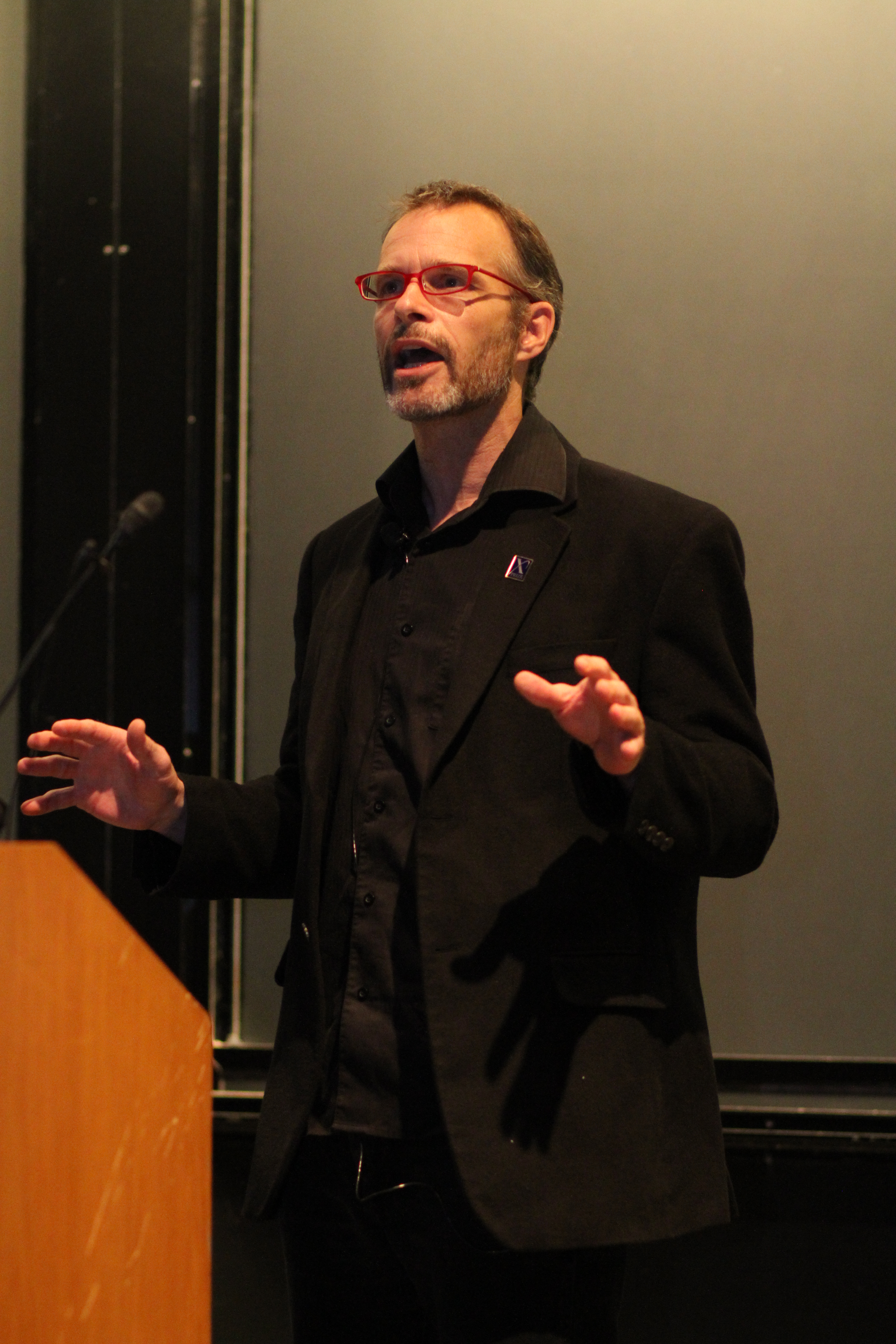 Andrew Hessel speaking at the Humanity Plus in 2010